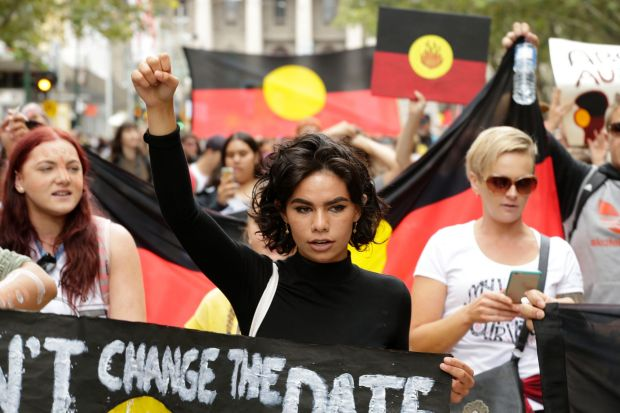 Picture of Aretha Brown